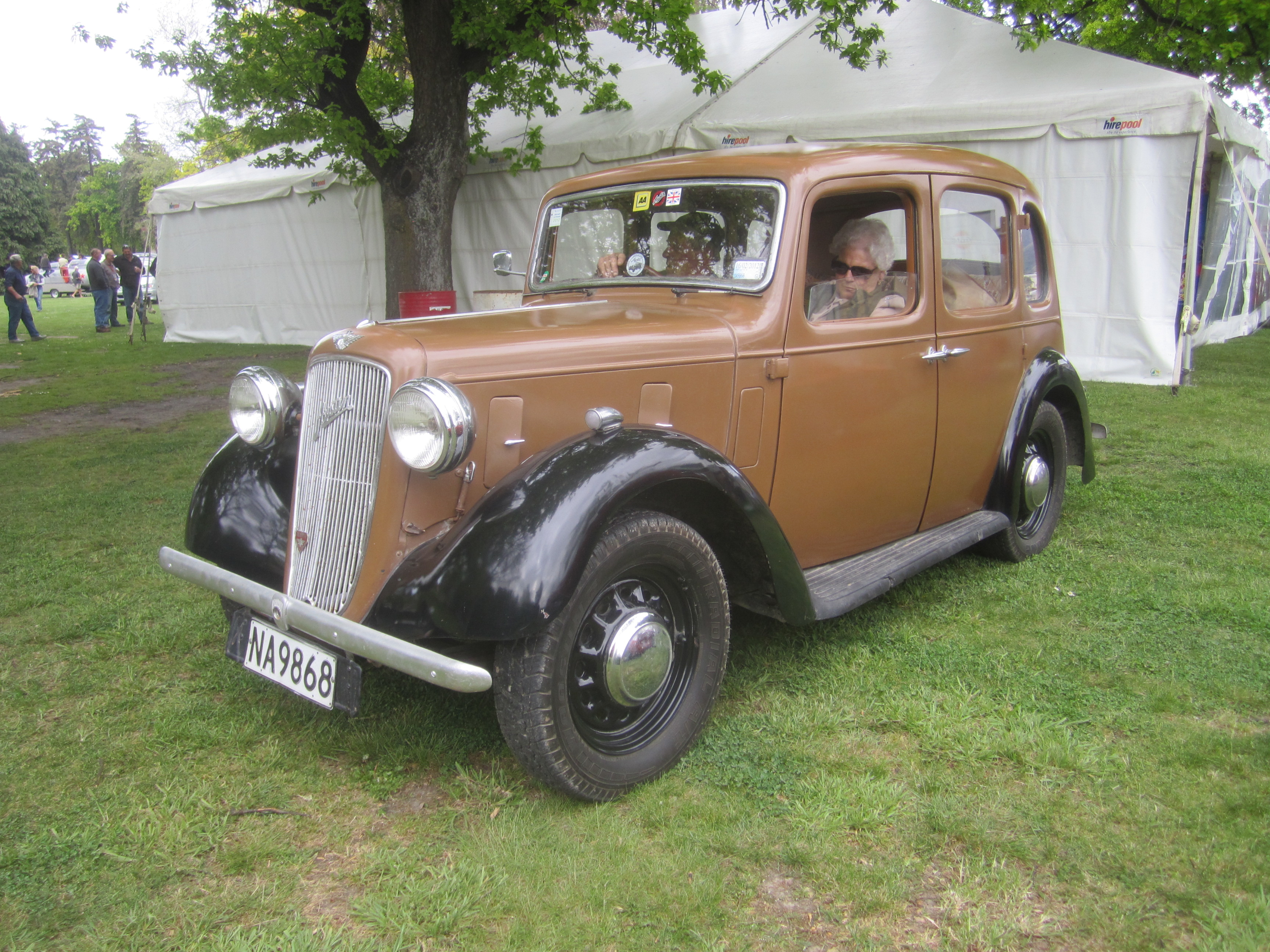 Built from 1932-47. Available in Saloon or 2 seat Tourer. Engine; 1124cc side valve 4 cyl. Replaced by the A40